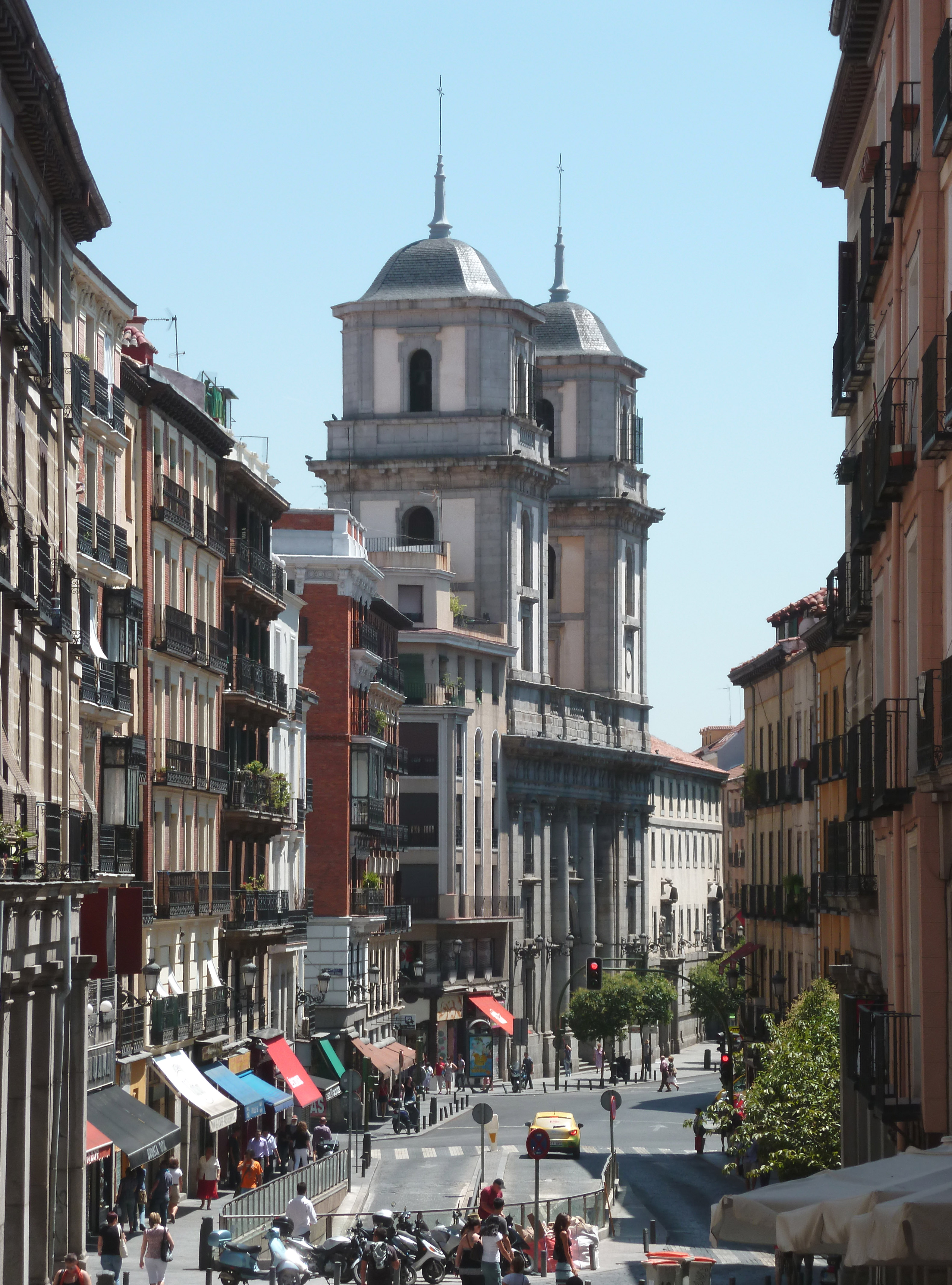 View from Calle de Toledo (street) in Centro district in Madrid (Spain). Background: St. Isidore's Church.